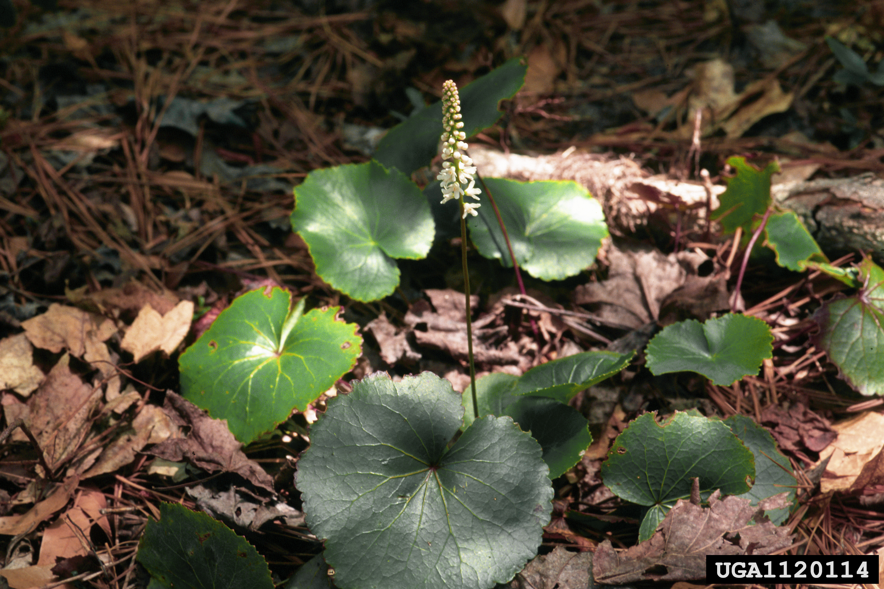 Galax urceolata, image taken in may.